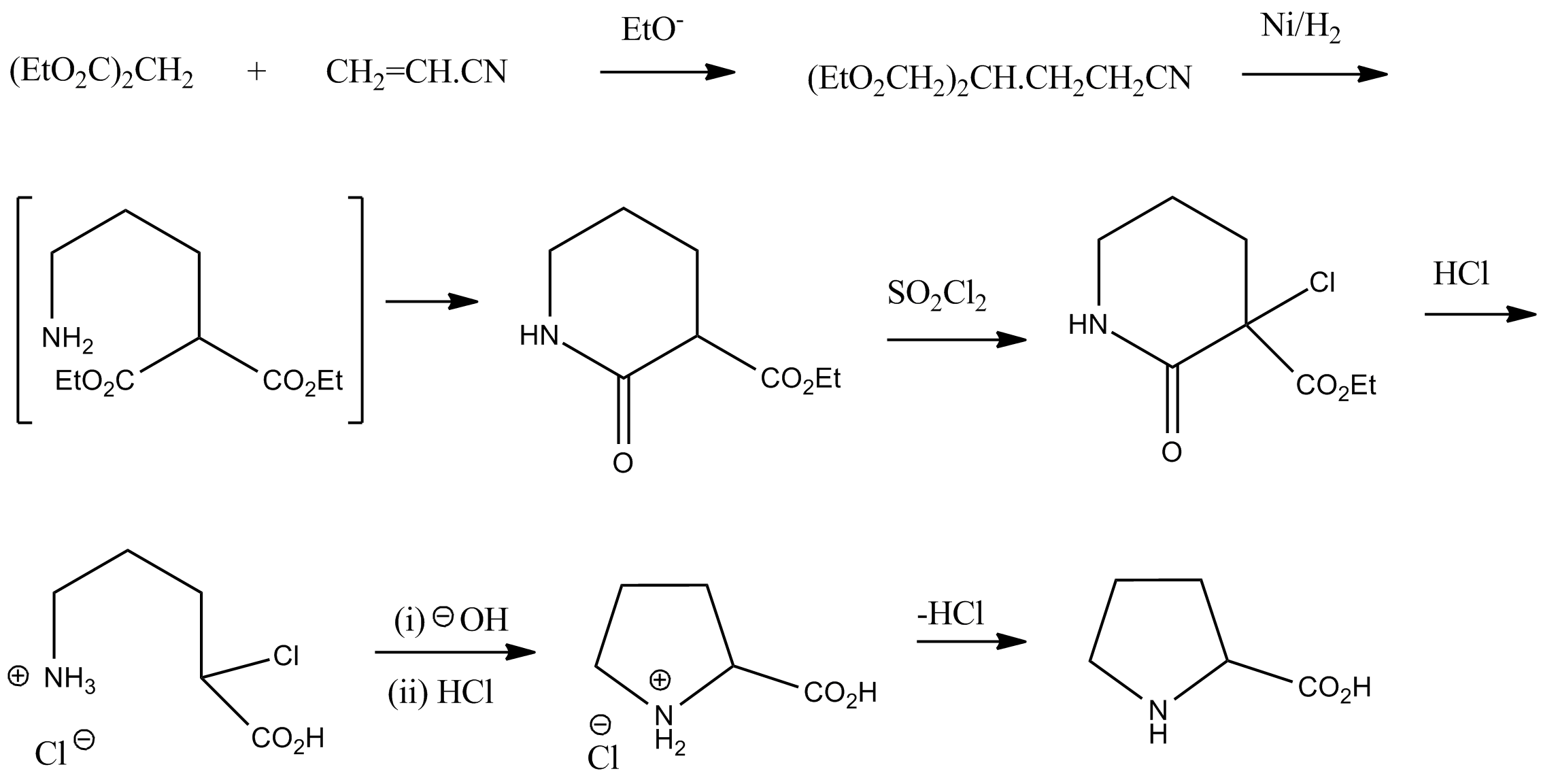 Synthesis of DL-Proline